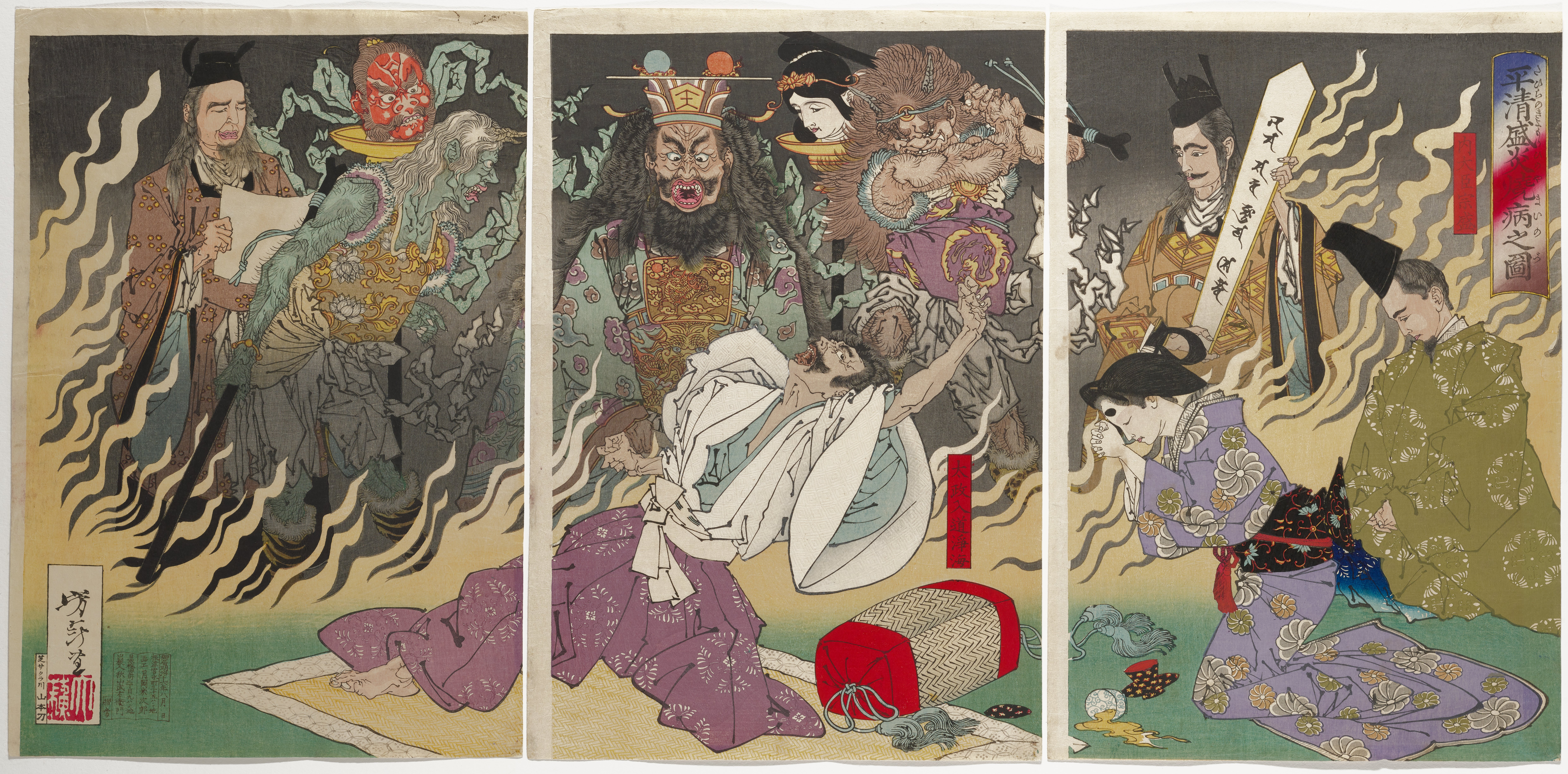 The Fever. Triptych, 28.25" by 13.75". Depicts Kiyomori, suffering from fever, as he confronts Enma, the king of hell, and the ghosts of Kiyomori's victims.